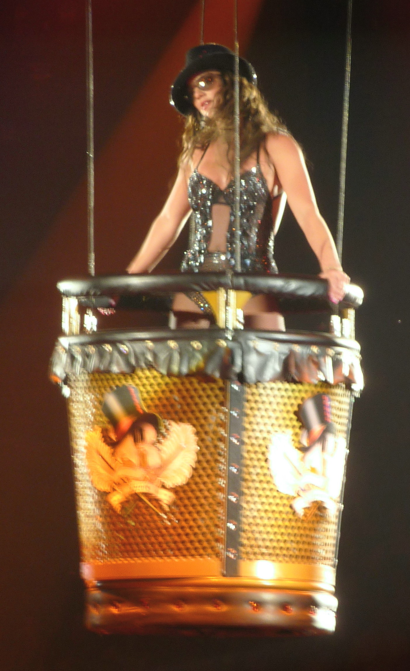 Britney Spears Doning "Ring On Fire"